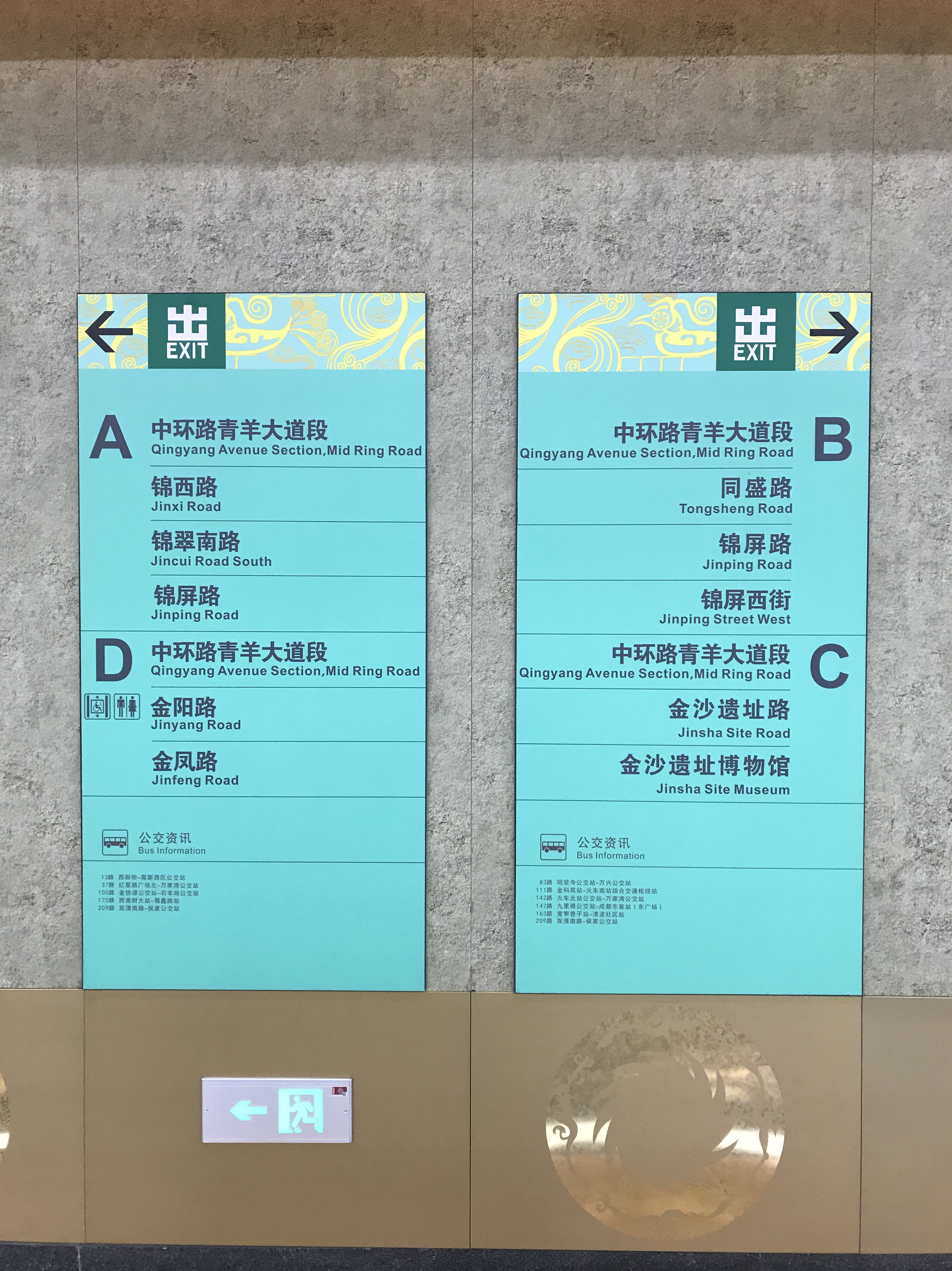 Signs in Jinsha Site Museum Station, Chengdu Metro